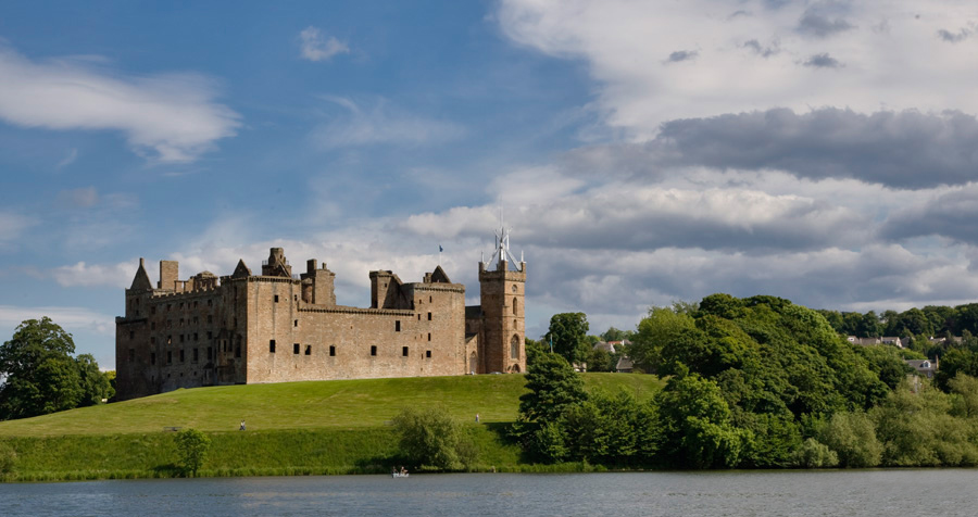 Linlithgow Palace, north-western aspect